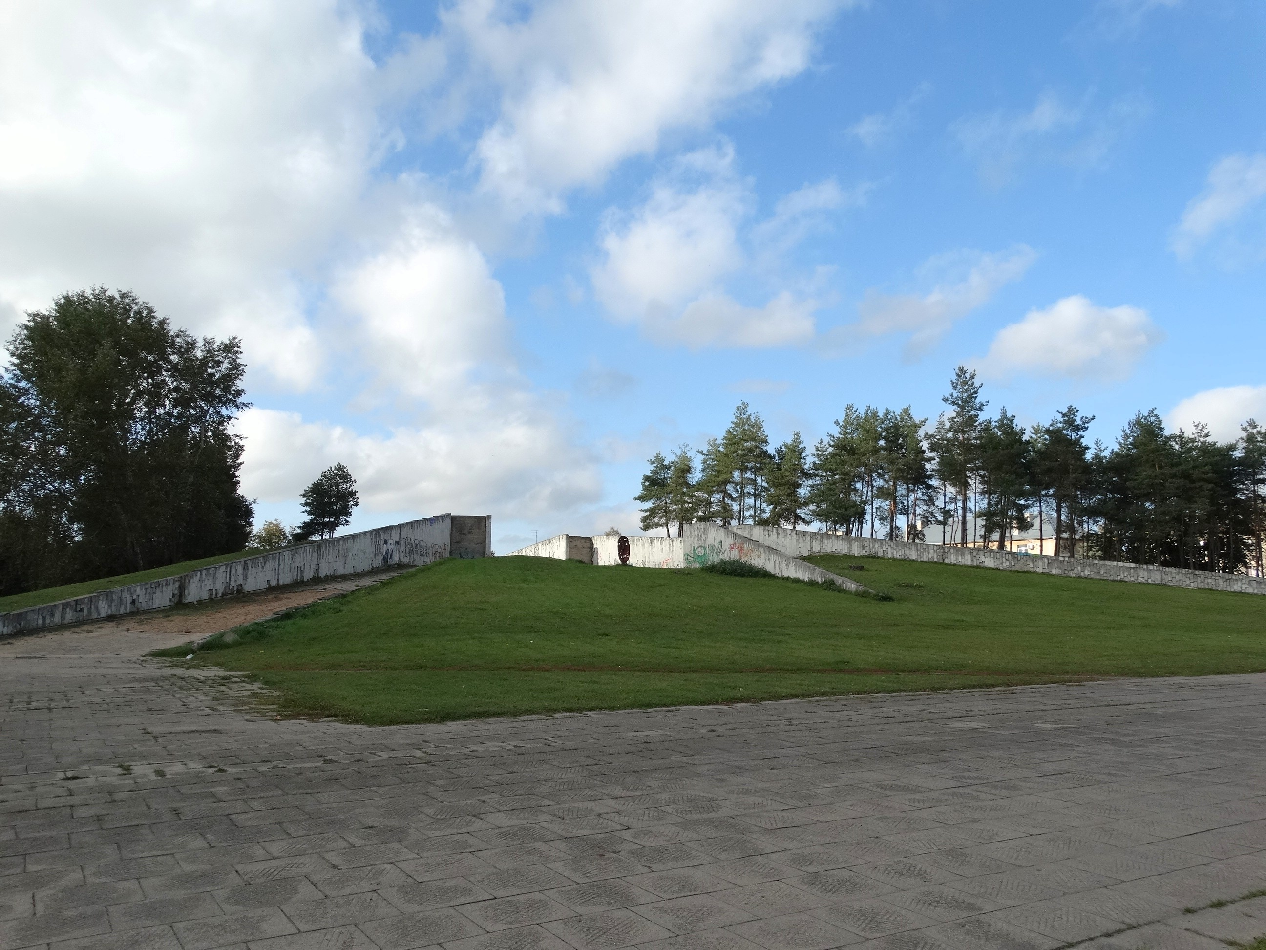 Sąjungos Square, memorial, Kaunas, Lithuania